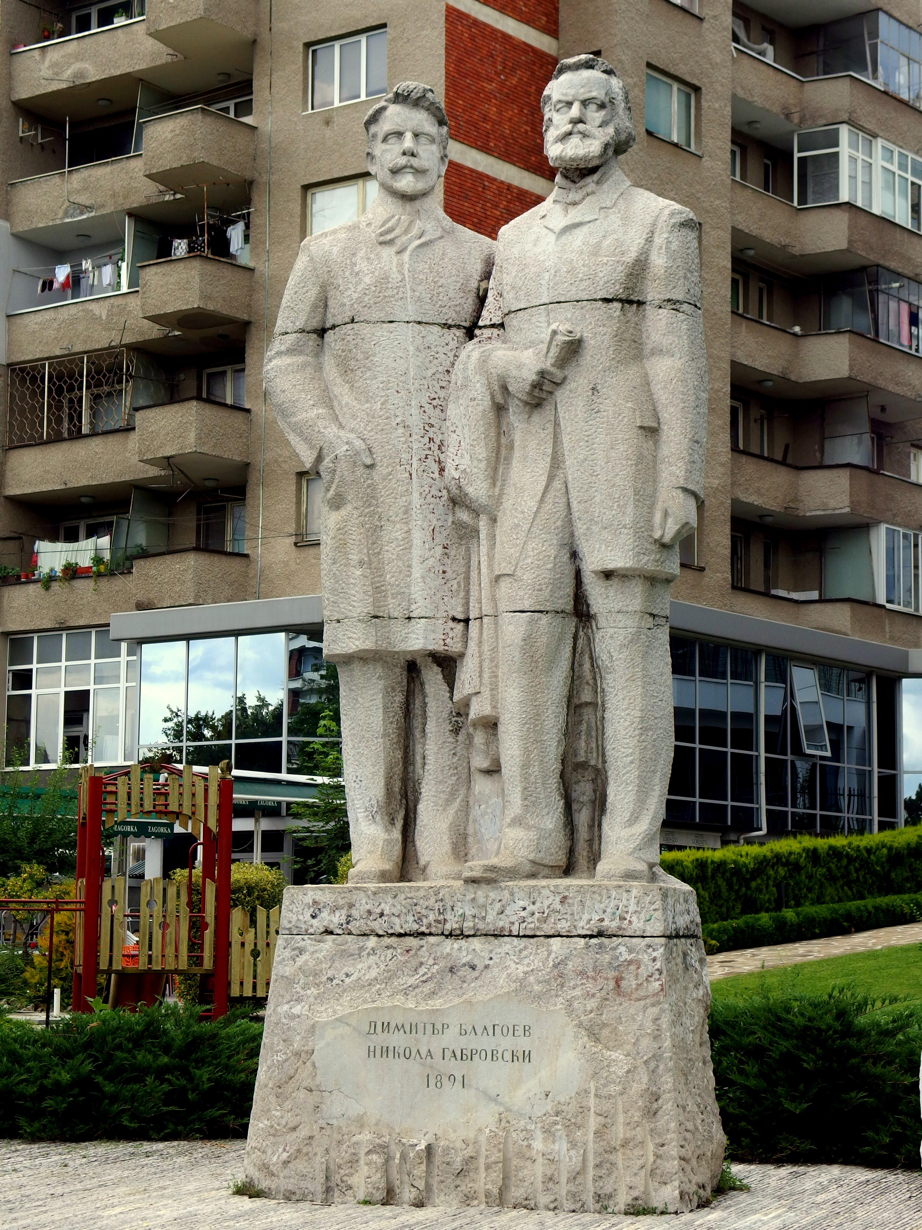 2014-06-20 in Veliko Tarnovo.